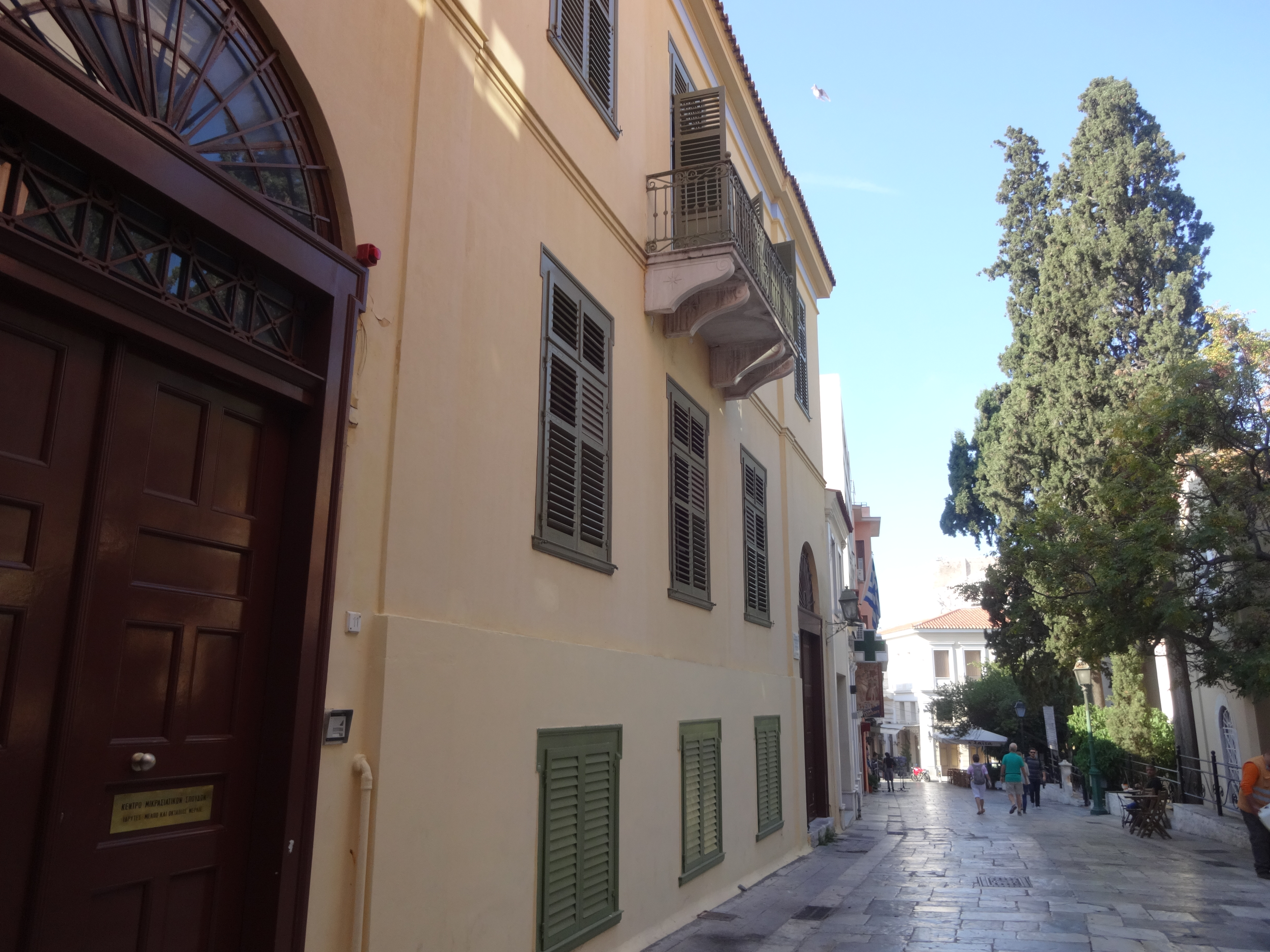 Building of Center of Asia Minor study, named after Octave and Melpo Merlier, Plaka, Athens.